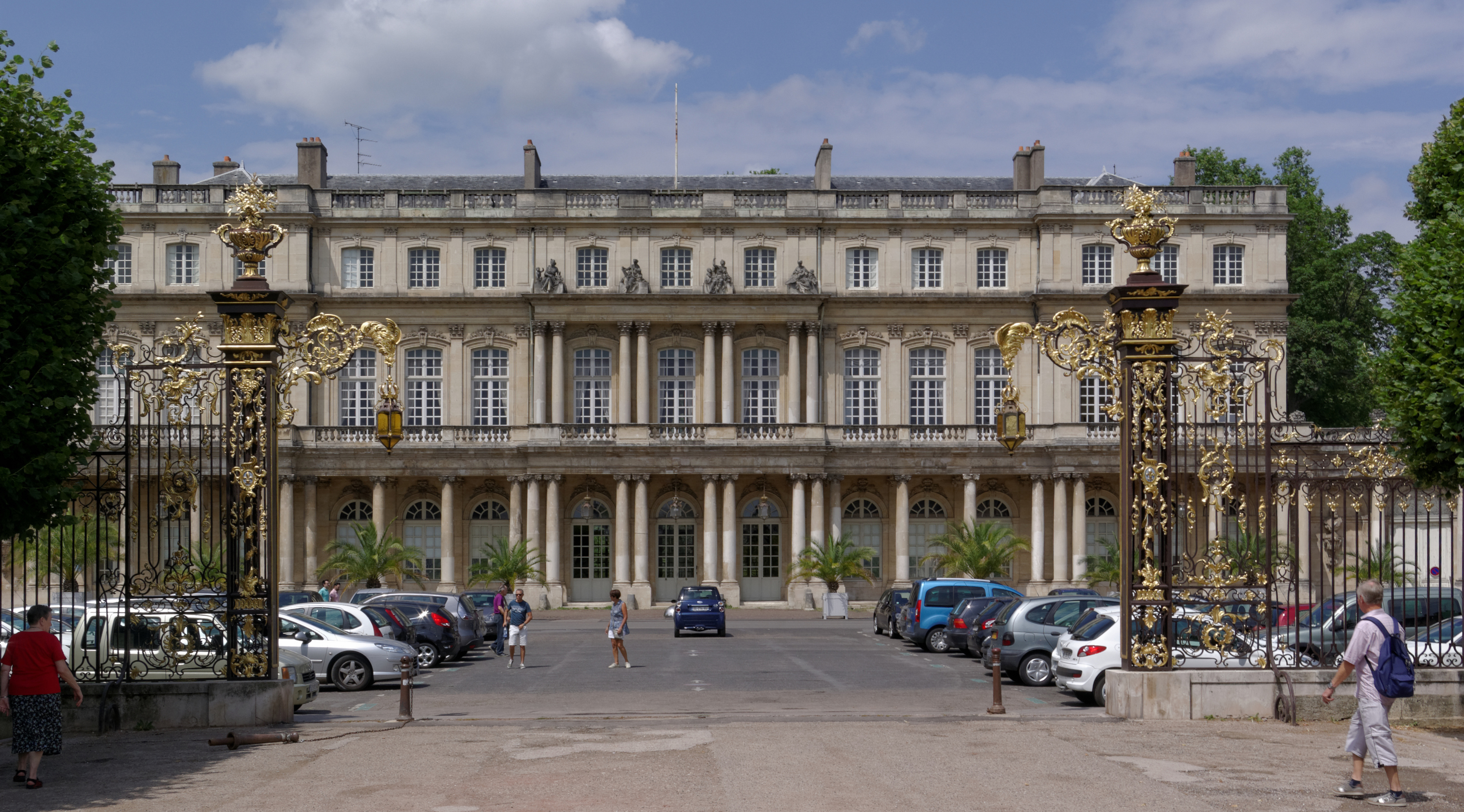 France, Nancy, Palais du gouvernement